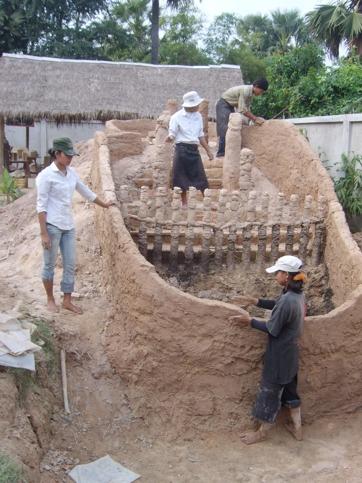 During the reconstitution of a traditional kiln at National Center for Khmer Ceramics Revival (NCKCR)